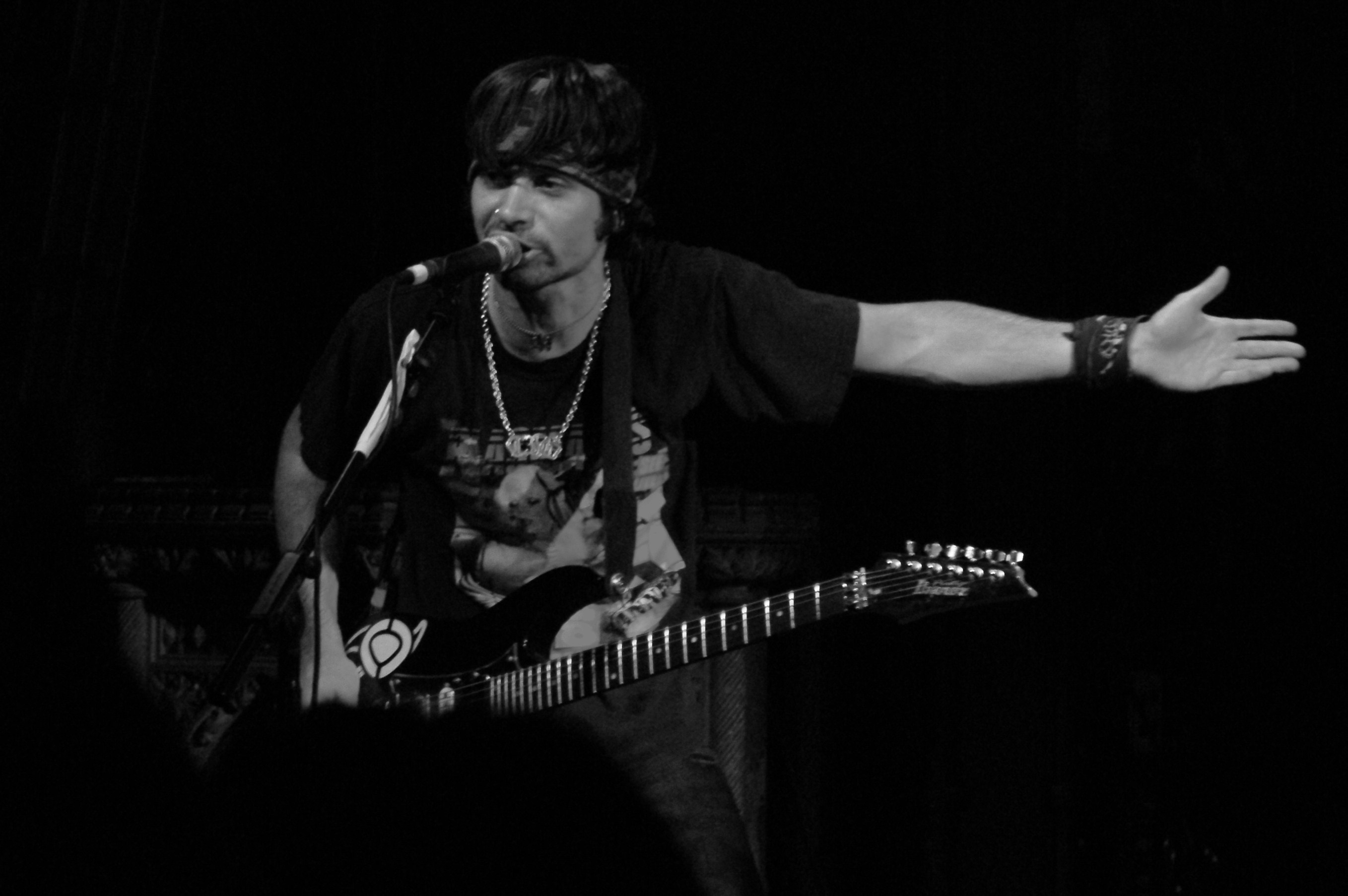 Chad I Ginsburg performing with CKY in Colchester, England on July 9, 2009.